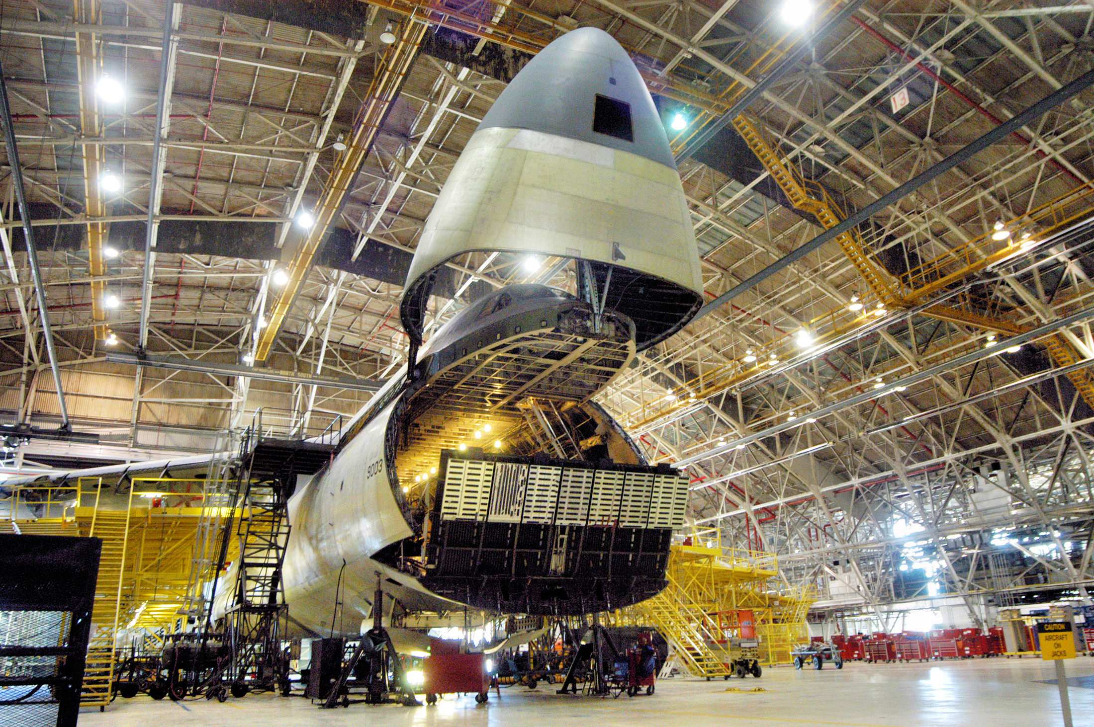 C-5 Galaxies maintained here will get a boost with the help of MSG-3. The new process will increase the aircraft's availability seven times. U. S. Air Force photo by Sue Sapp